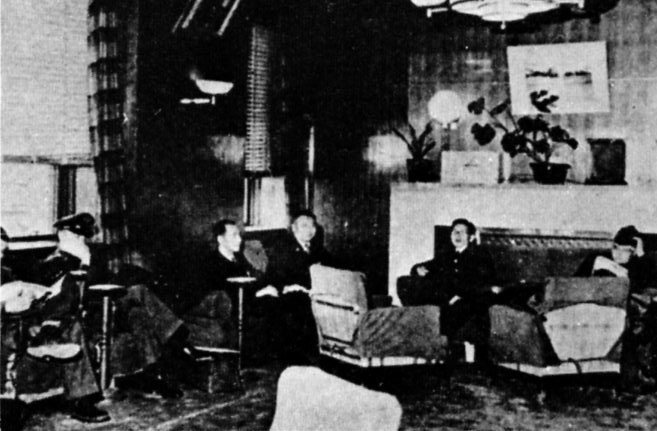 Waiting room for allied forces in Nagoya Station, began using from 11 January 1946.